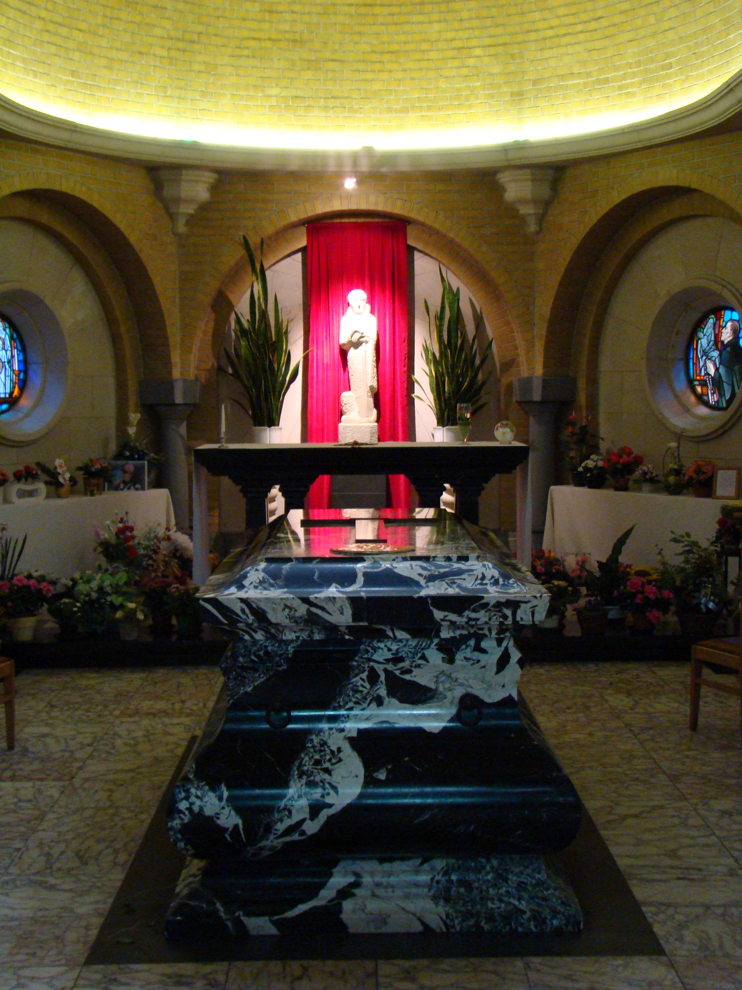 St Antony church Passionists, Kortrijk (West Flanders, Belgium)